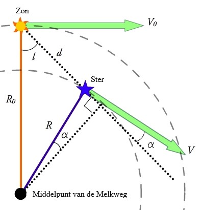 Diagram for the derivation of the Oort constants in Dutch